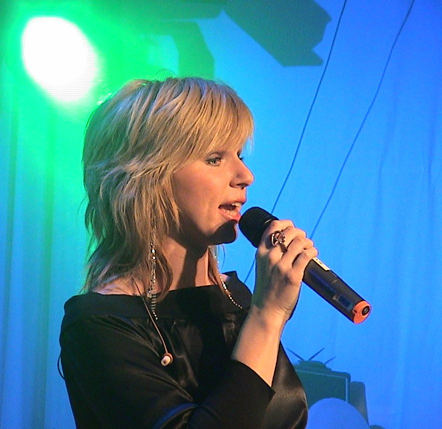 The swedish artist Pandora (Anneli Magnusson) performs at Blue Moon Bar in Karlstad, Sweden.